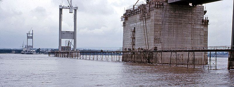 First Severn Road Bridge under construction. View NW across to Monmouthshire side from the beach at Aust - with my wife. The Bridge was opened three years later, on 7/9/66.